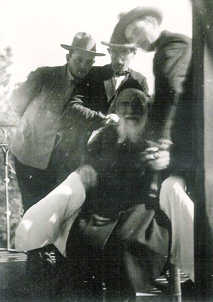 Rabbi Nosson Zvi Finkel, (1849-1927), surrounded by students in Hebron Yeshiva.